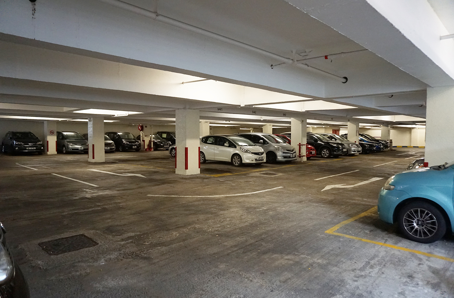 Fu Heng Estate in Tai Po, Hong Kong.